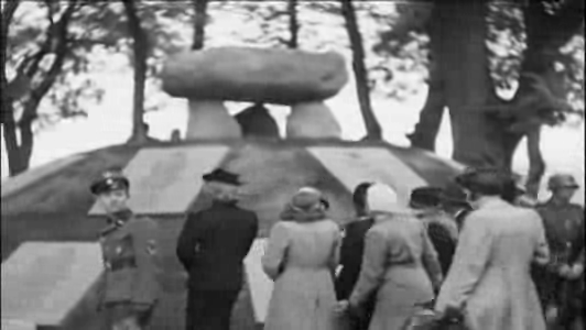 Video still image number 11727 of 14239, at 07:50. See also File: Waffen-SS memorial and raw footage (Denmark, 1944).ogv